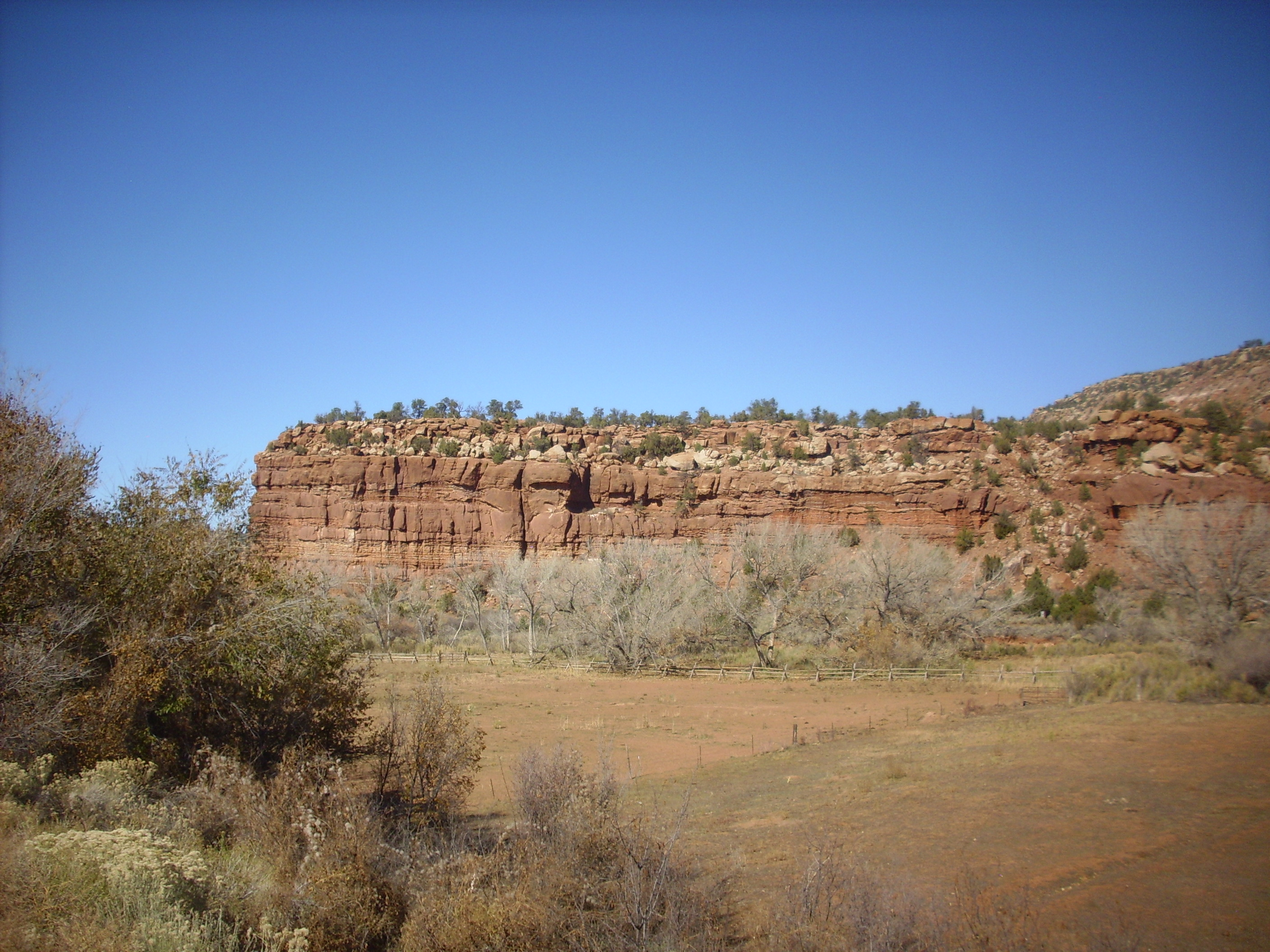 This image shows an outcrop of the El Cobre Canyon Formation of the Cutler Group just north of Arroyo del Agua, New Mexico, USA. The El Cobre Canyon is a latest Pennsylvanian to early Permian continental redbed formation notable for a large number of tetrapod fossil quarries in this vicinity.